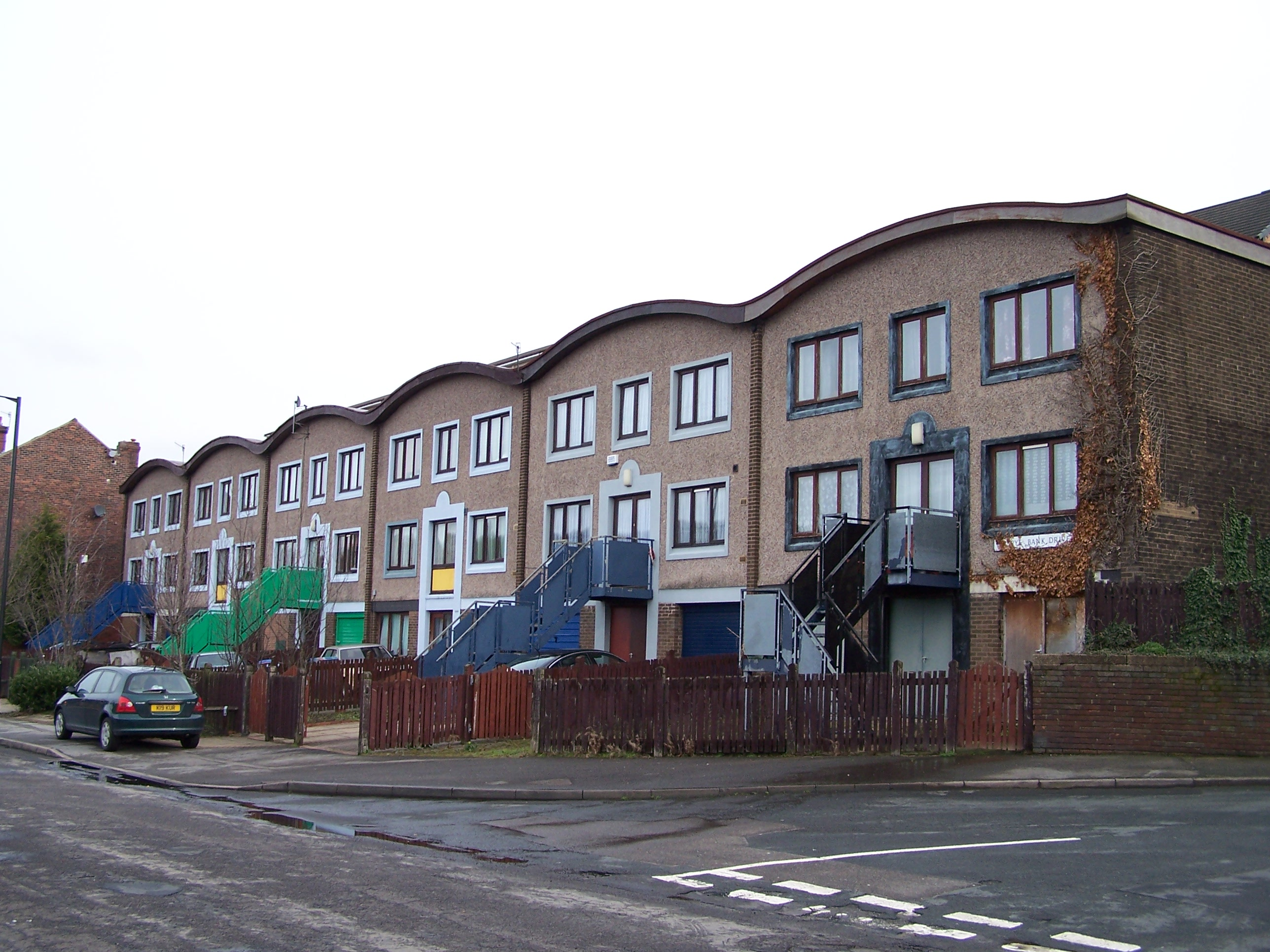 'New Style' Terraced Houses, Pye Bank Road, Woodside, Sheffield. These houses were built to a 'new modern design' in the 1970s, when the Woodside area was re-developed and contrast with the traditional style, which 'share' Pye Bank Road, pictured on ... 1756449 ... Pye Bank Road runs along the top of the banking as seen in this view ... 1738849 Follow this link for a view of the complete road ... 1762553